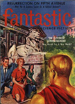 Cover of Fantastic, December 1957